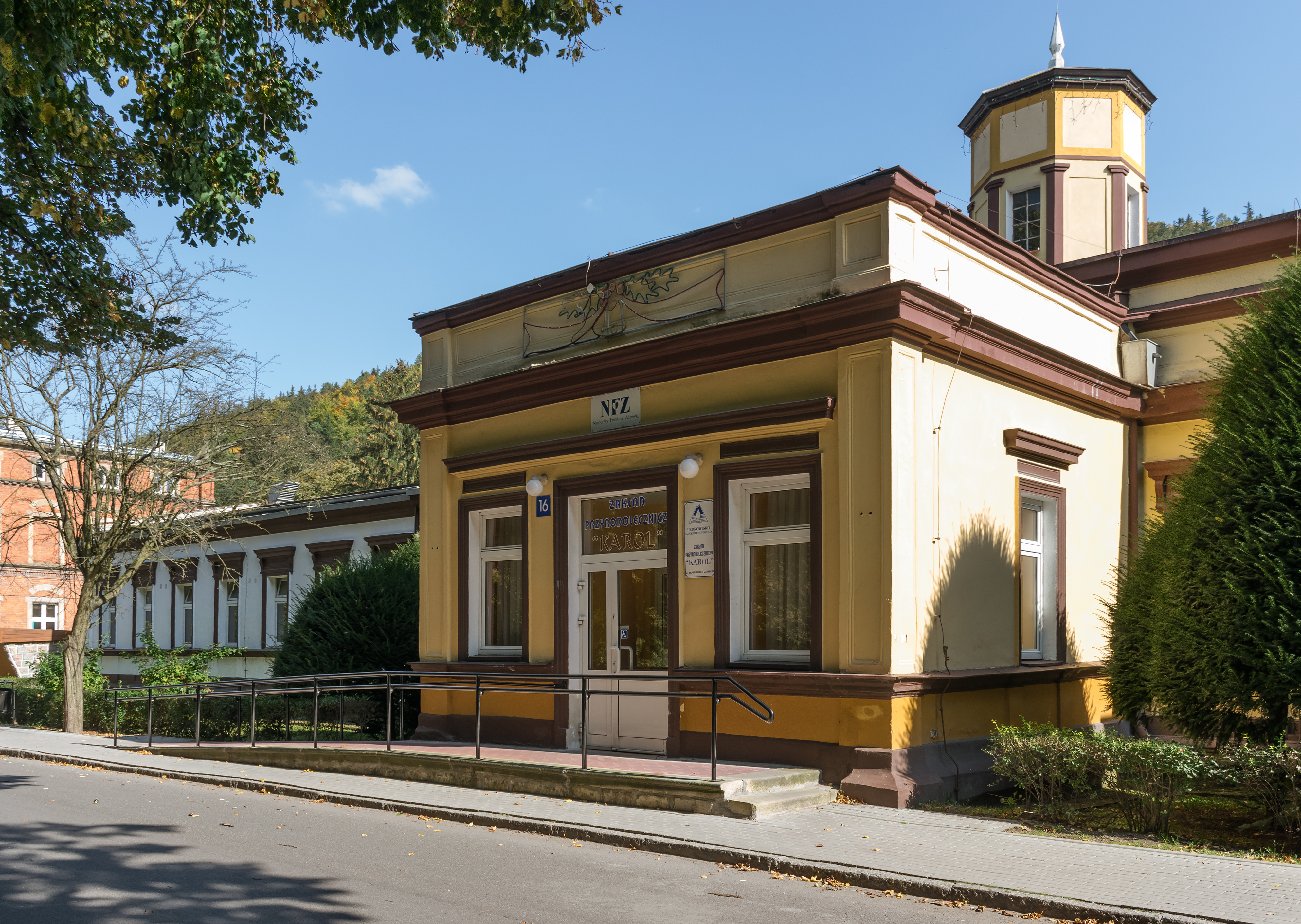 Balneological Centre in Długopole-Zdrój Wikidata has entry Q30046548 with data related to this item.